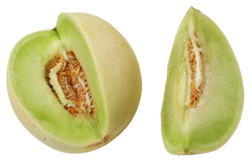 Studio shot of an organic Honeydew melon grown by delbosque farms USA